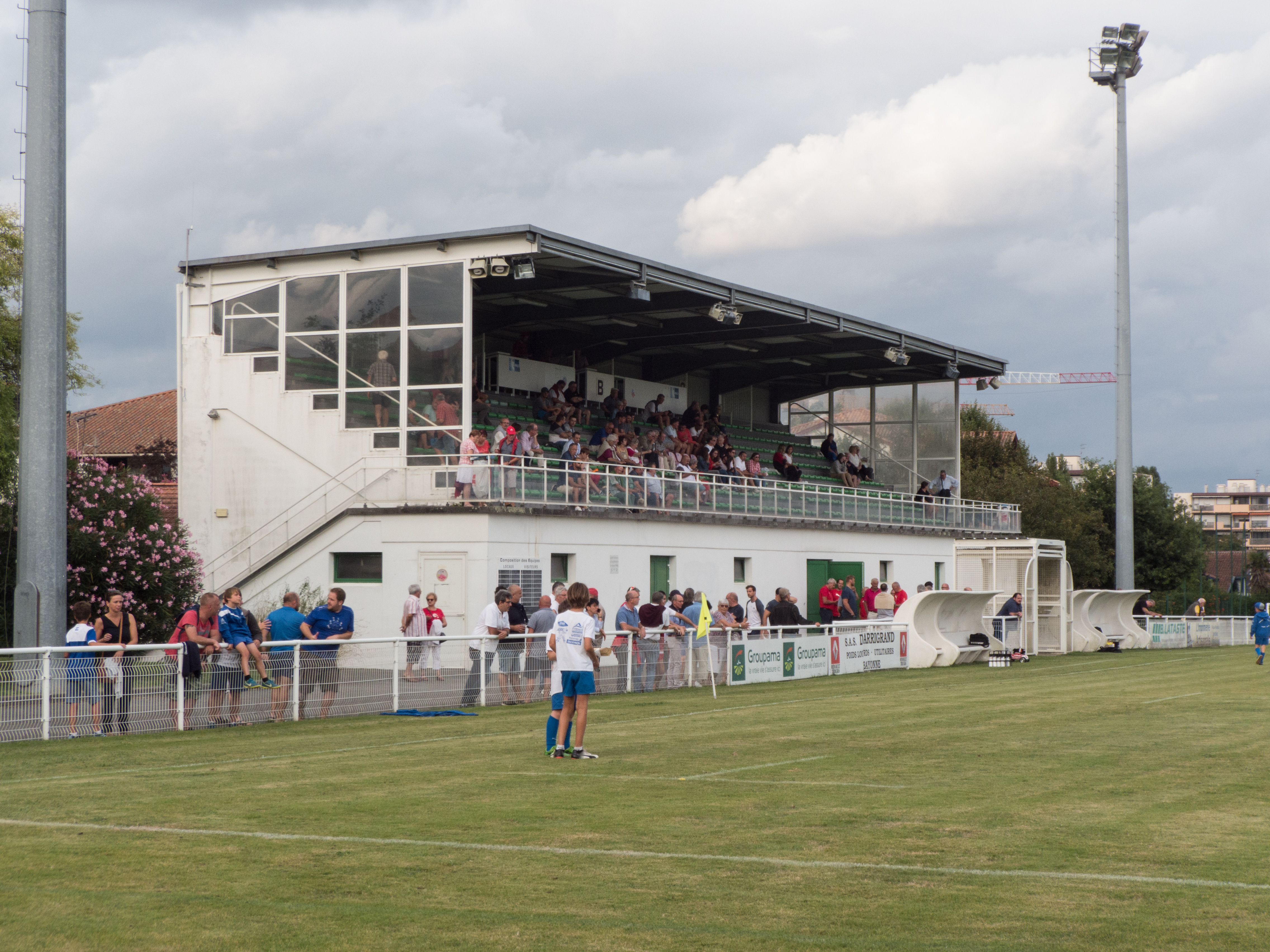 rugby union friendly match — 24 August 2018, stade Saint-Jean (Anglet). Match between: Q21007935 — US Dax